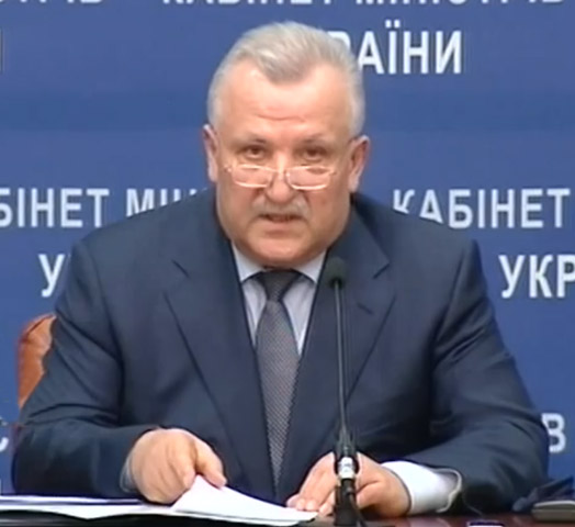 Volodymyr Khomenko, Deputy Minister of Revenue and Duties of Ukraine